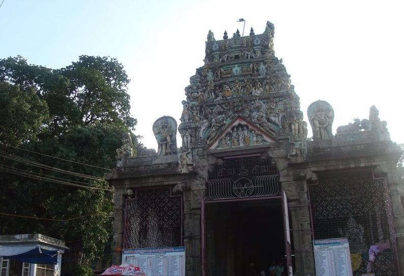 The Temple name is Thiru Courtallanathar Thirukovil but not Courtalleswaran Temple.